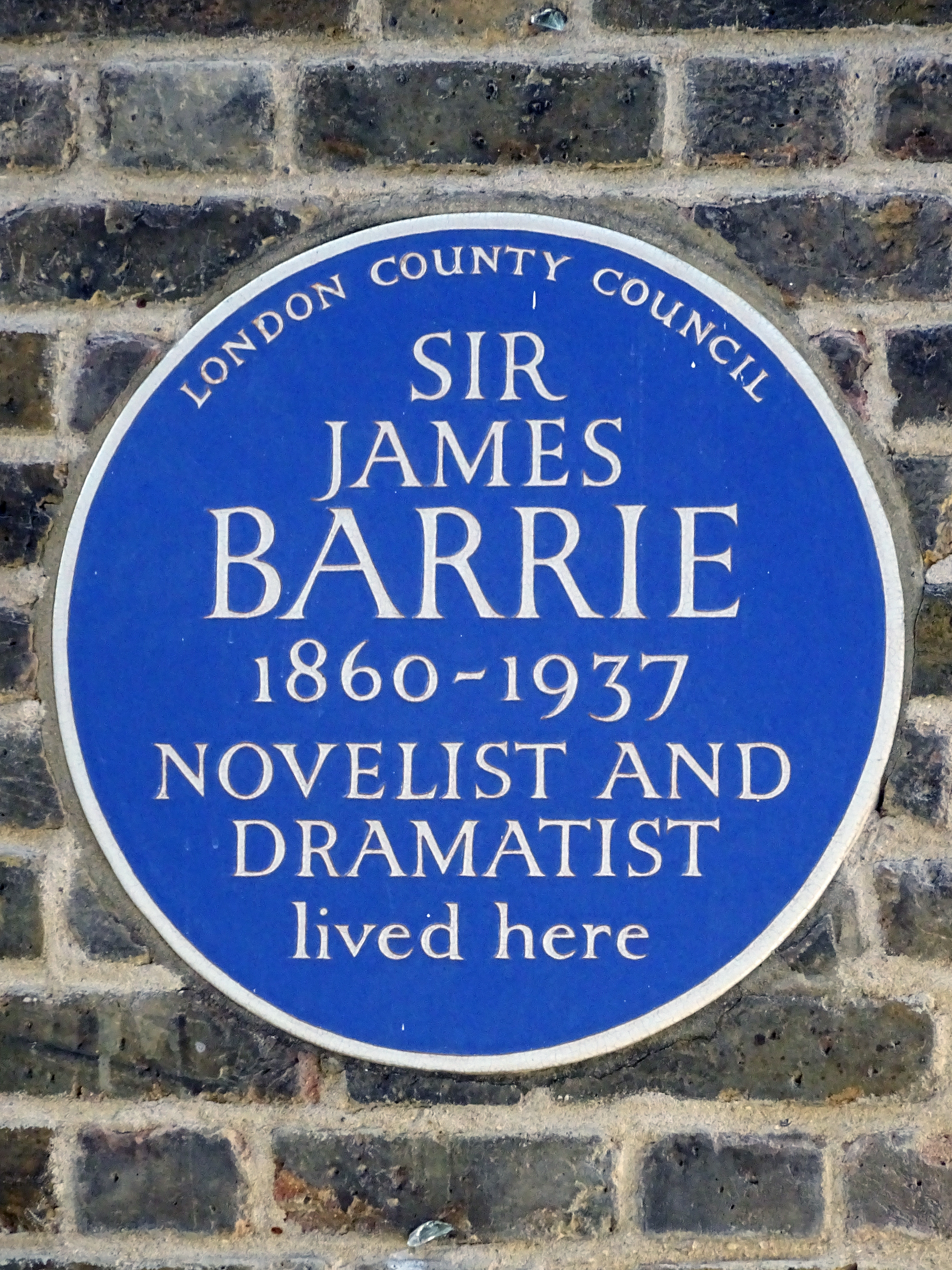 Blue plaque erected in 1961 by London County Council at 100 Bayswater Road, Bayswater, London W2 3HJ, City of Westminster